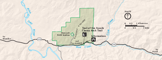 Map of the Clarno Unit of the John Day Fossil Beds National Monument in north-central Oregon, United States.